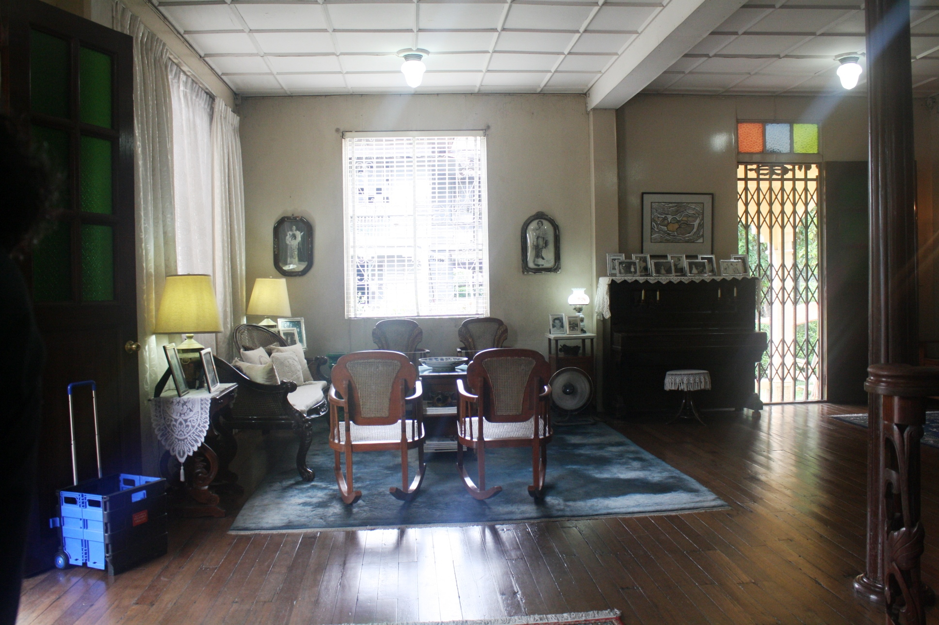 The living room of the Hofileña Ancestral House.